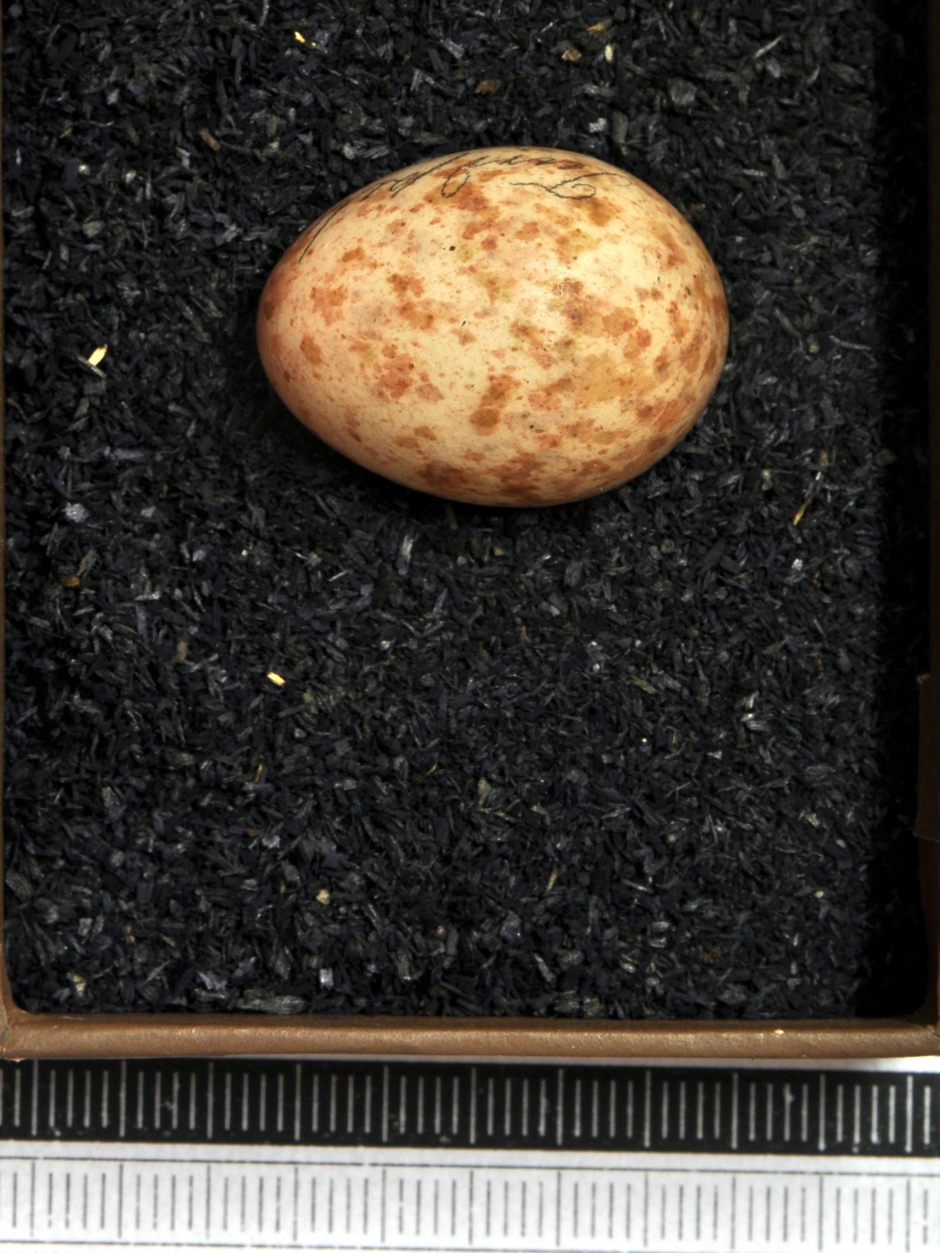 Grey-backed thrush Turdus hortulorum , egg, Coll. Museum Wiesbaden